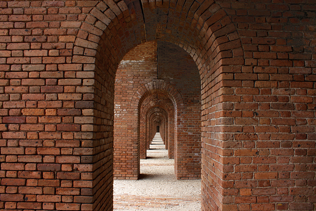 Fort Jefferson, Dry Tortugas National Park, Florida, USA